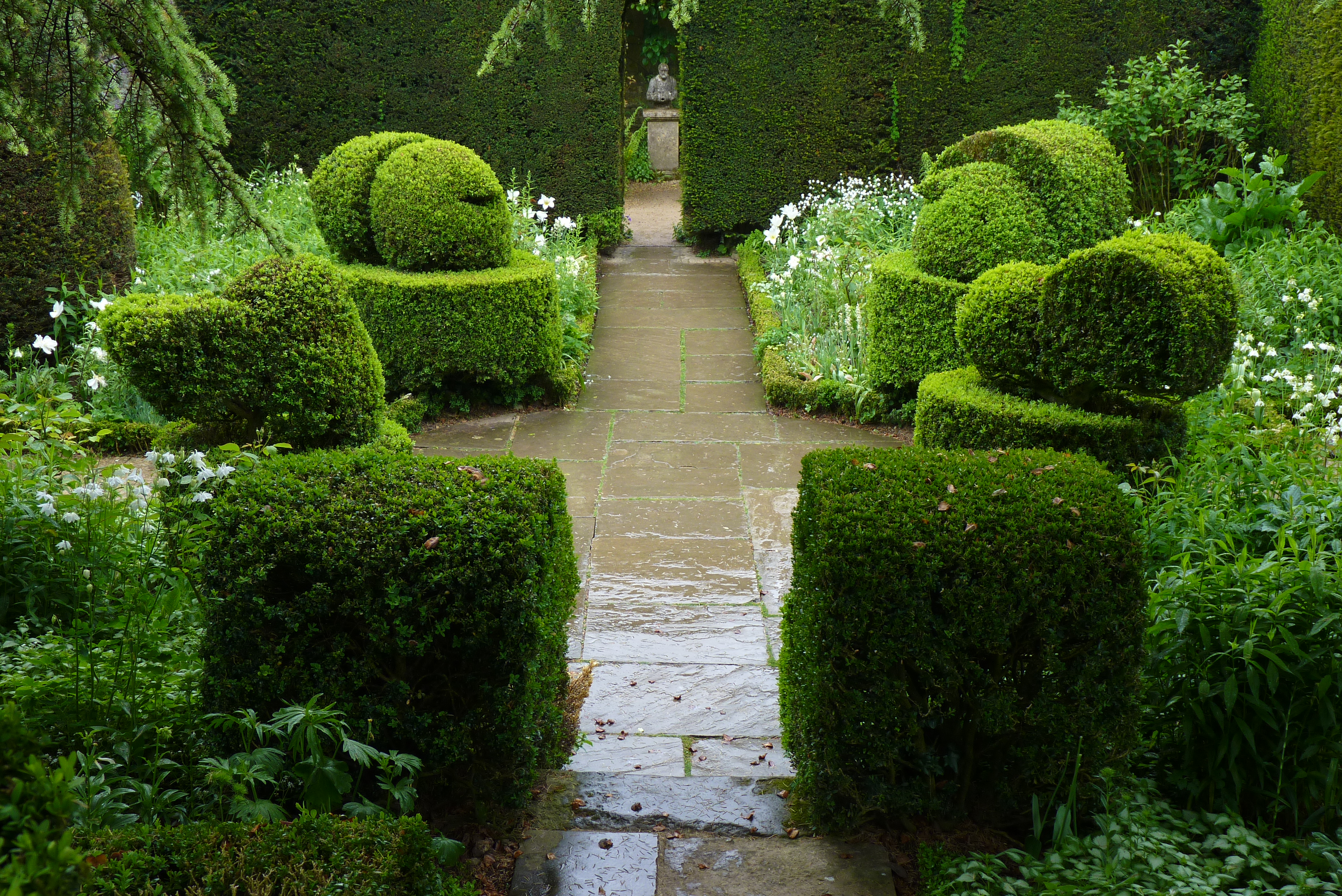 White garden in Hidcote Manor garden with topiary birds